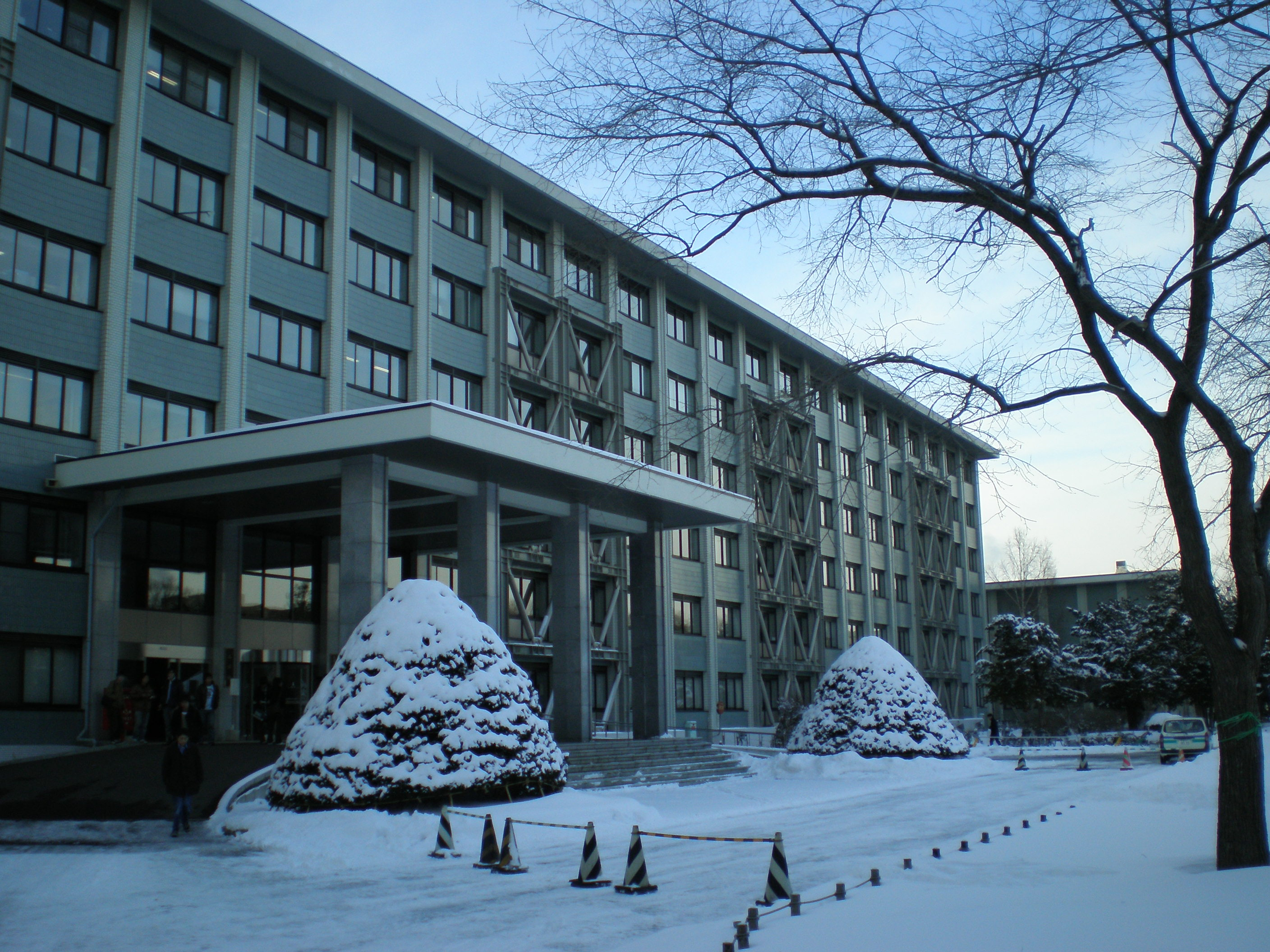 Engineering Faculty of Hokkaido University in January 2007